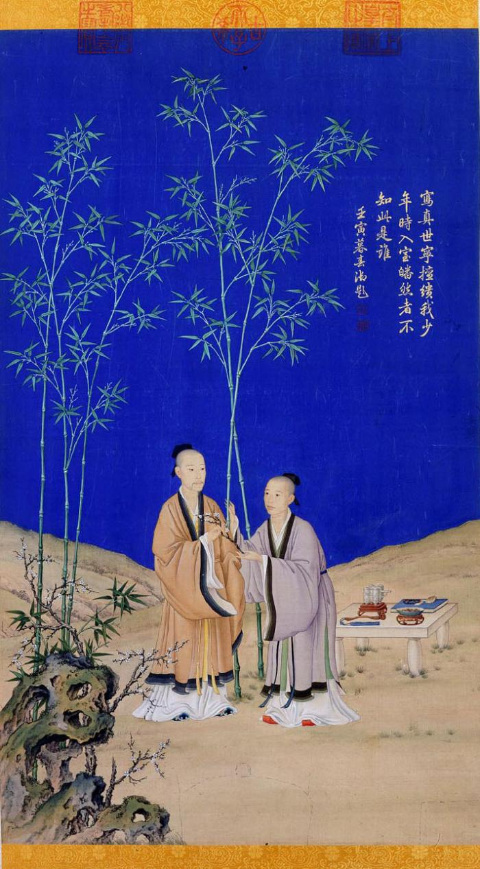 Spring’s Peaceful Message, c. 1736, by Giuseppe Castiglione (Chinese name Lang Shining, 1688—1766). Hanging scroll, ink and colour on silk. The Palace Museum, Beijing.